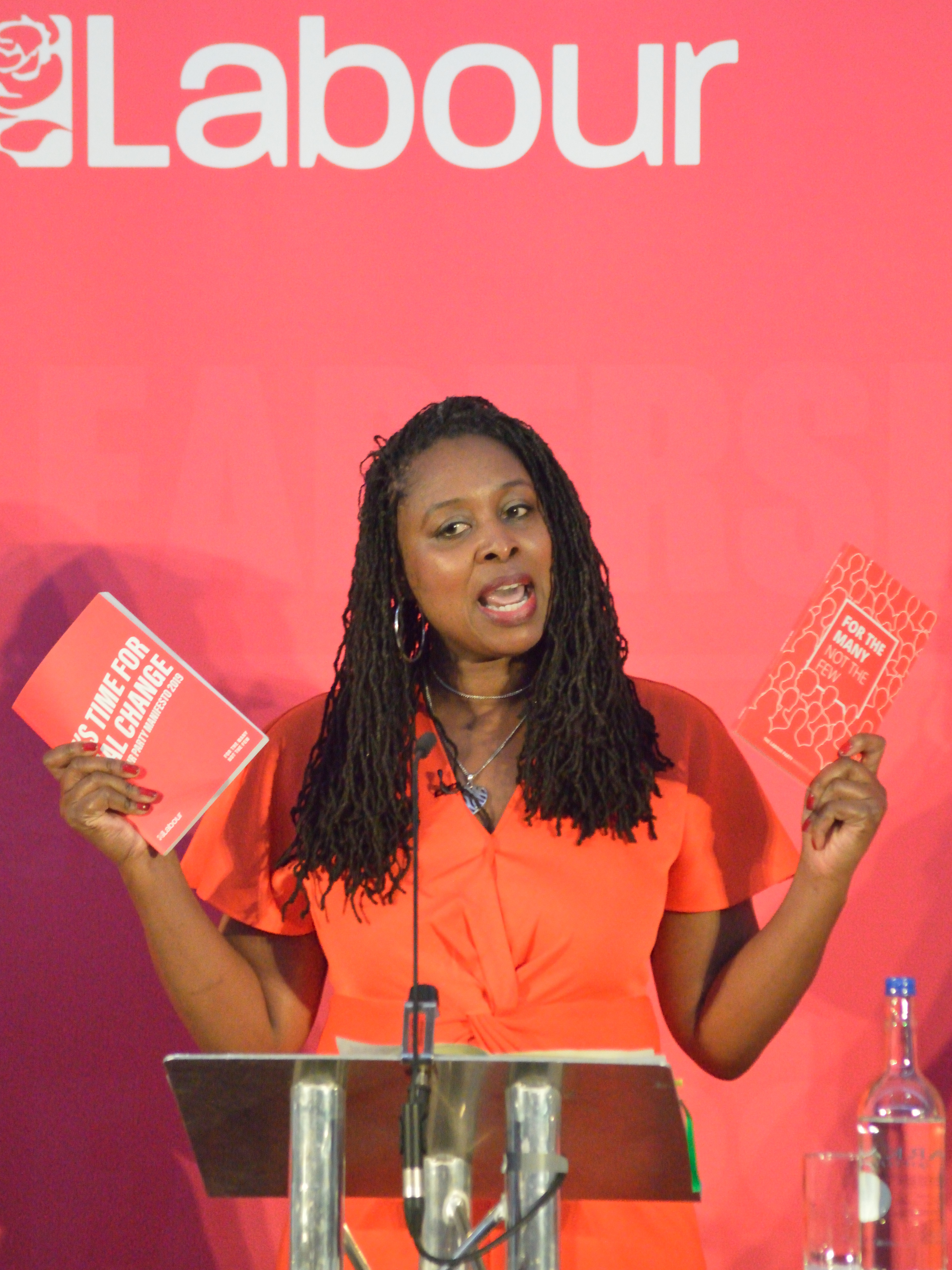 Dawn Butler speaking at the 2020 Labour Party deputy leadership election hustings in Bristol on the afternoon of Saturday 1 February 2020, in the Ashton Gate Stadium Lansdown Stand.